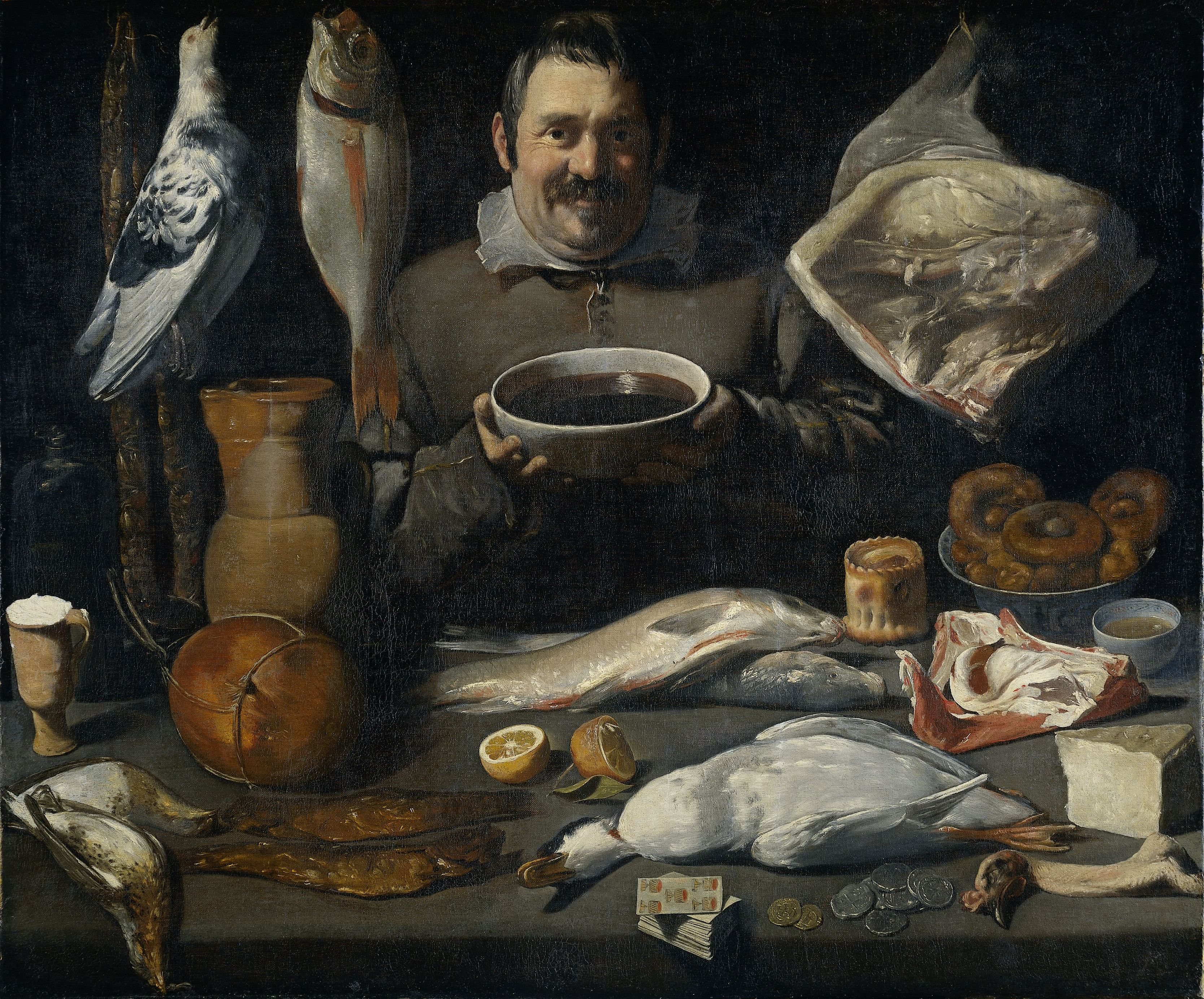 Kitchen scene of Bodegón. The laughing kitchen chef holding a large bowl of red wine in his hands stands behind a table on which all sorts of food is laid out: poultry, quails, a duck, a turkey, fish, a mackerel, cheese, pastries, bread rolls, sausages, hams, a pigeon, a sea bream and a pig's trotter. In the front a pack of cards and some loose change is shown.